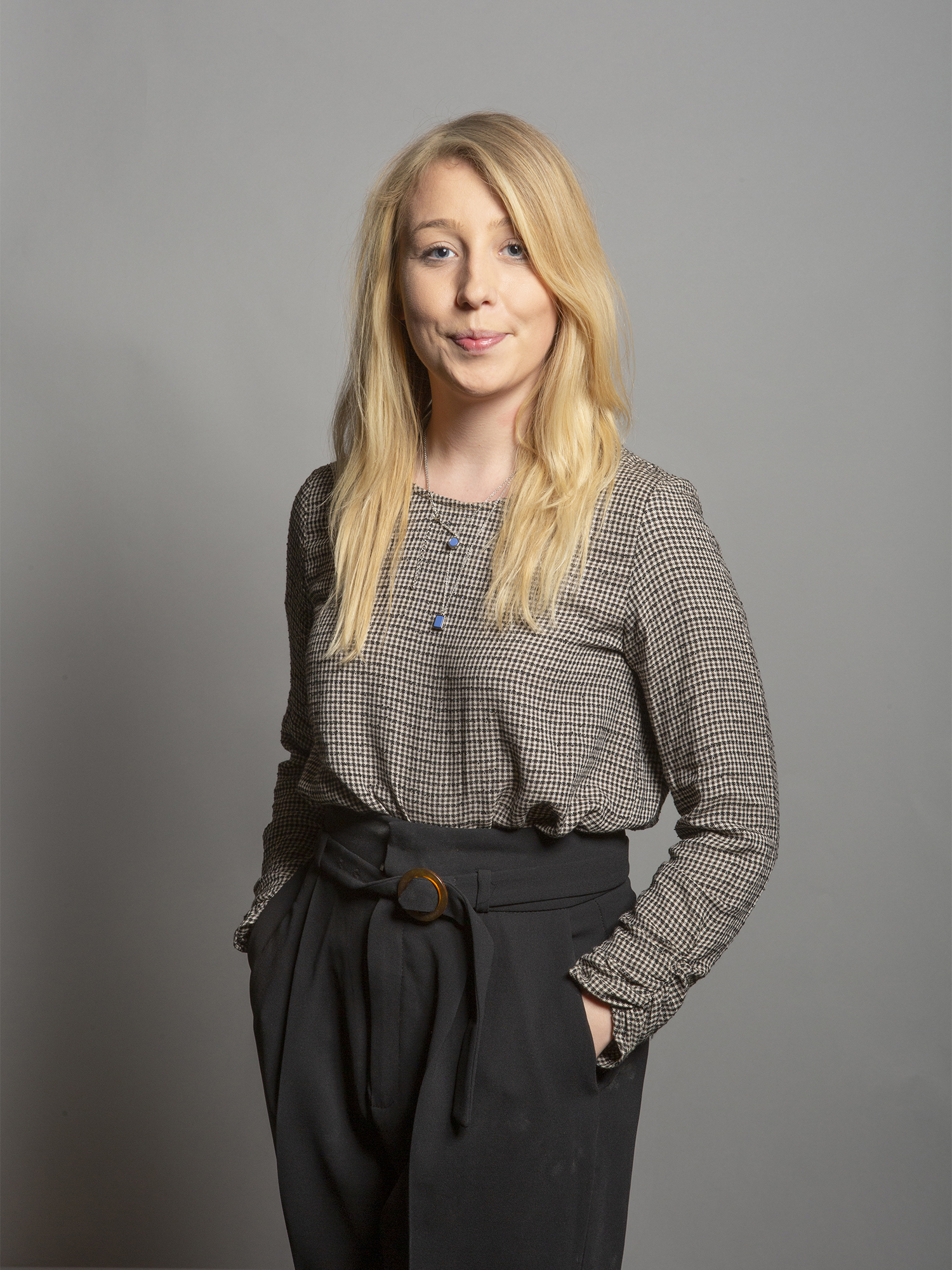 Official portrait of Sara Britcliffe MP Full sized portrait of Sara Britcliffe